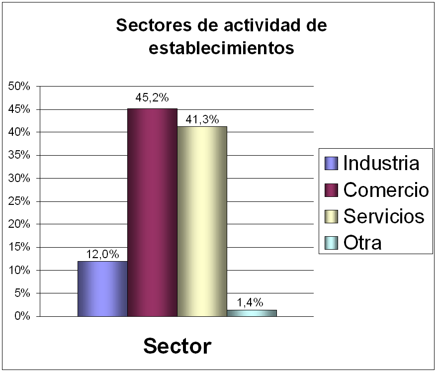 Barranquilla - Establecimientos según actividad